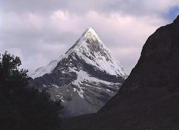 Artesonraju - North Ridge